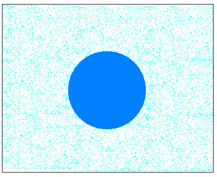 Drop of water on a heterogeneous surface